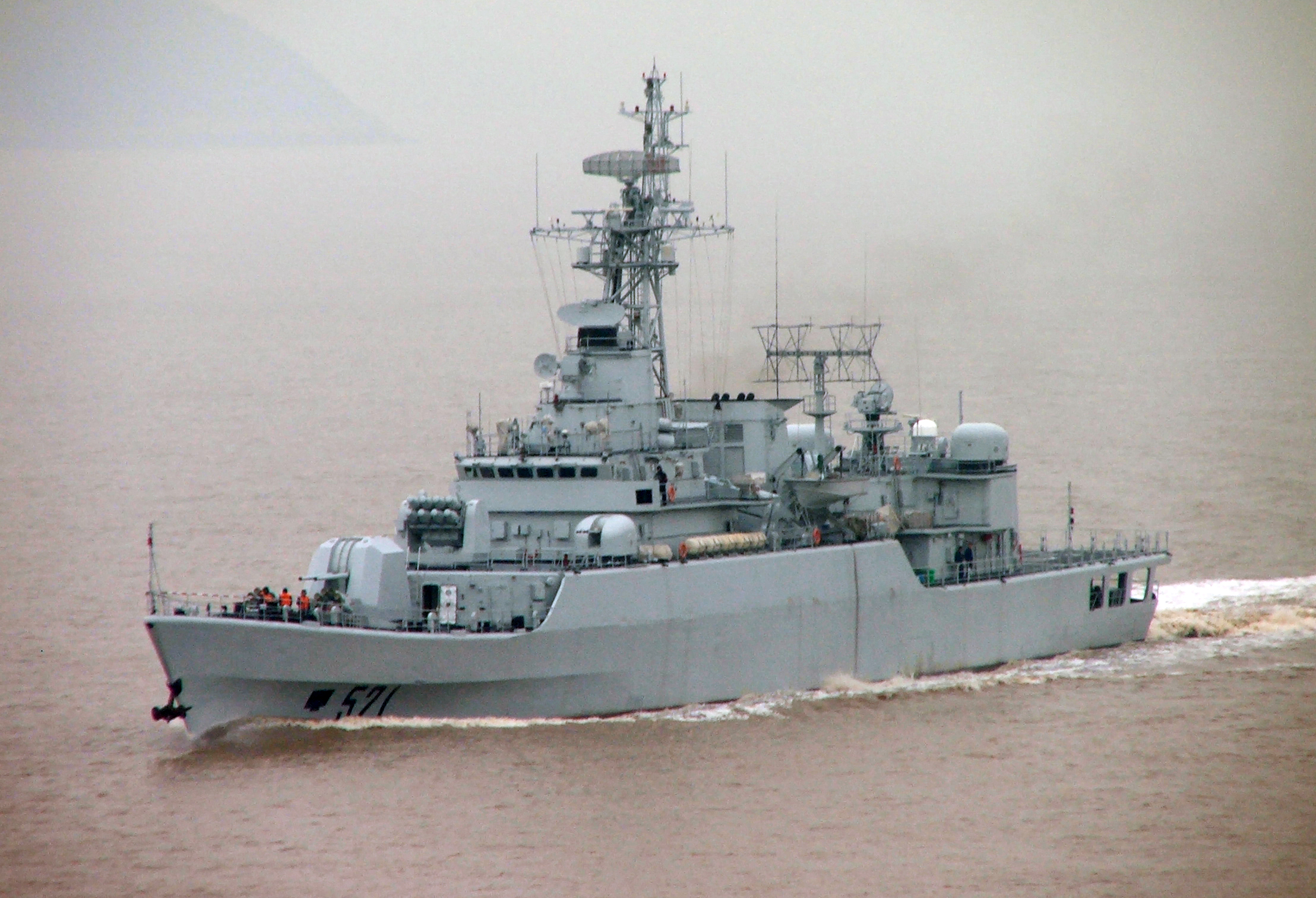 (FFGHM 521) Jiaxing - Jiangwei class frigate